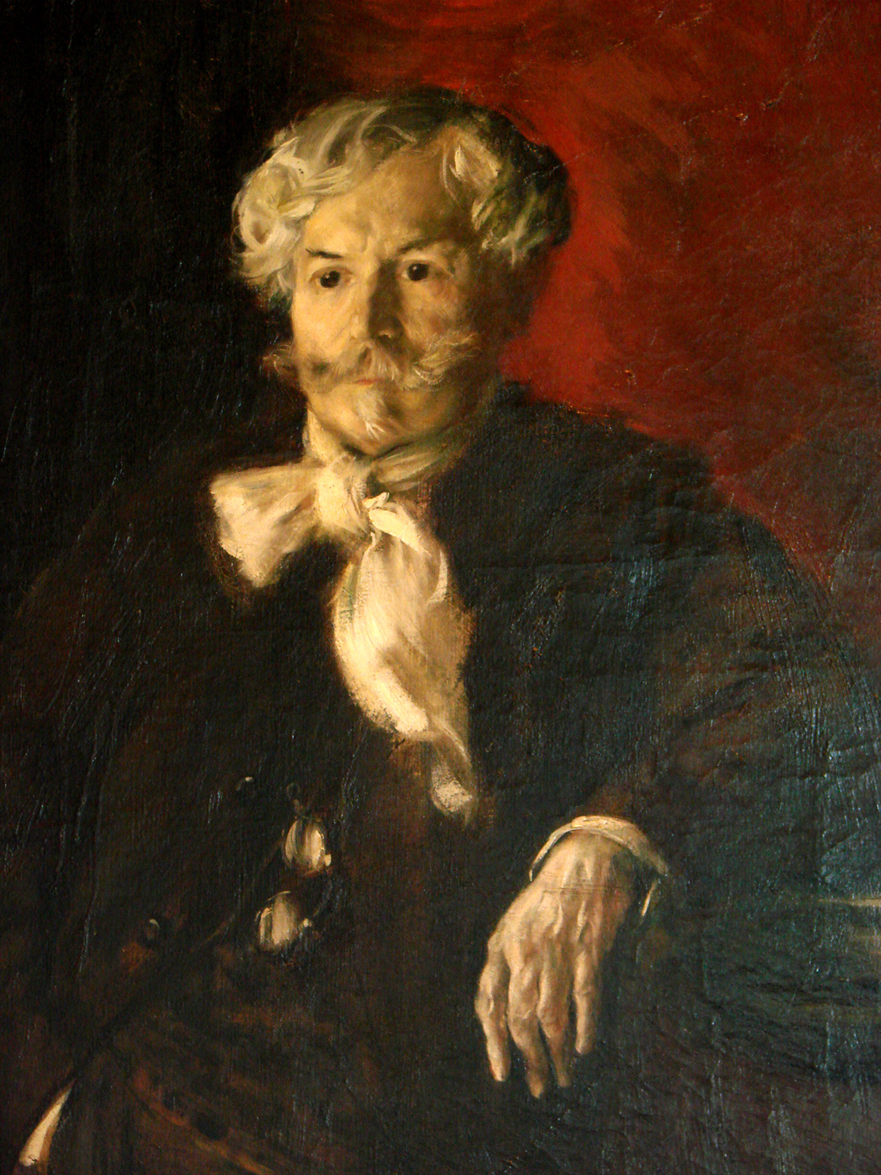 Portrait of Edmond de Goncourt (1888) from Jean-François Raffaëlli (1850-1924), museum Beaux-Arts de Nancy.